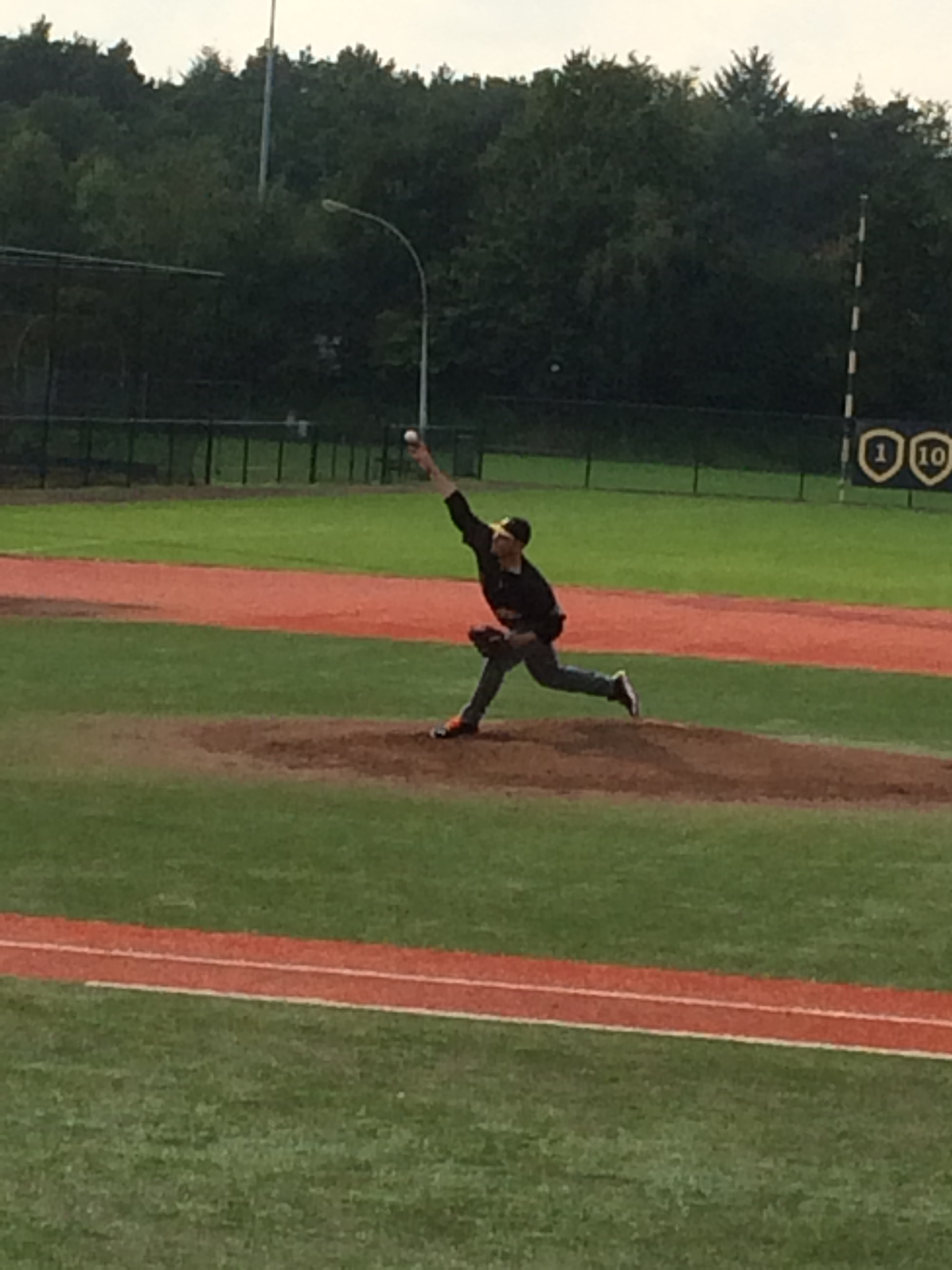 Pitcher Rob Cordemans play offs Holland Series game HCAW - L&D Amsterdam september 17 2017